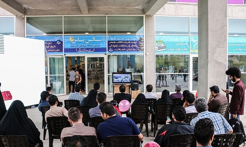 People watching second Iranian presidential debate at Tehran